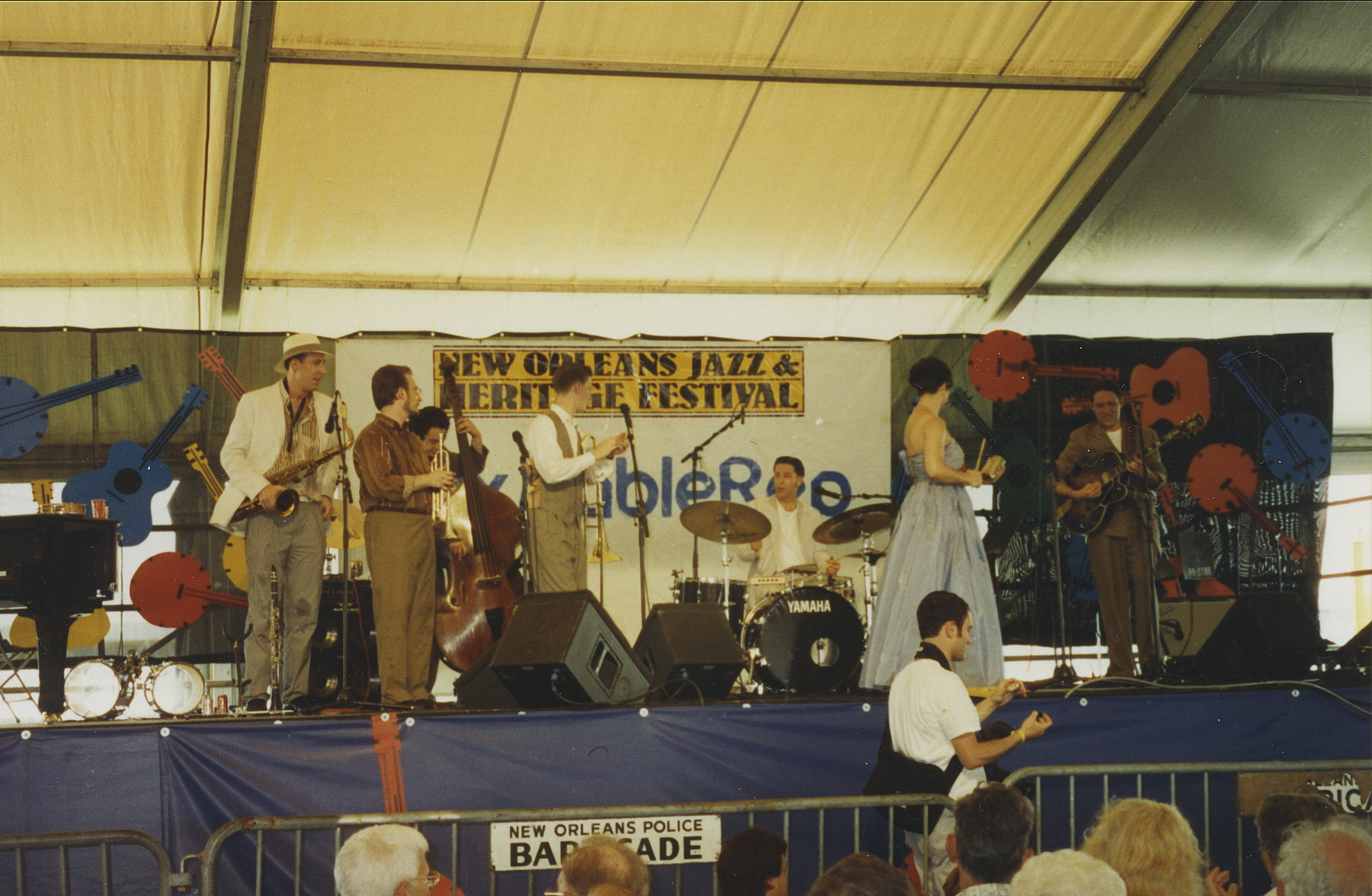 Flying Neutrions as JazzFest New Orleans 1995